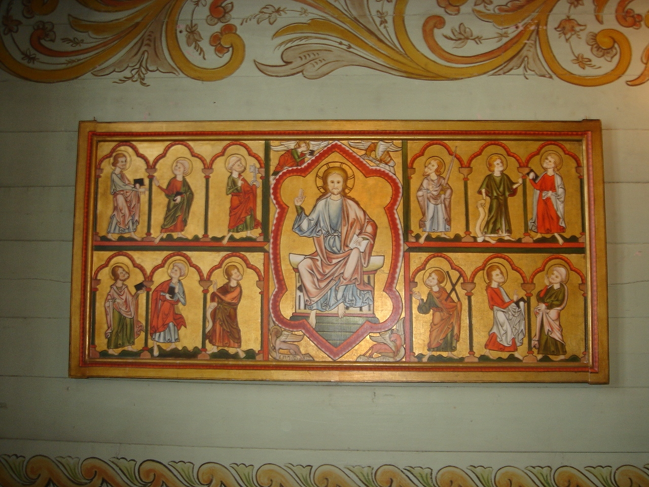 Copy of the medivela antemensale i Ulvik Church